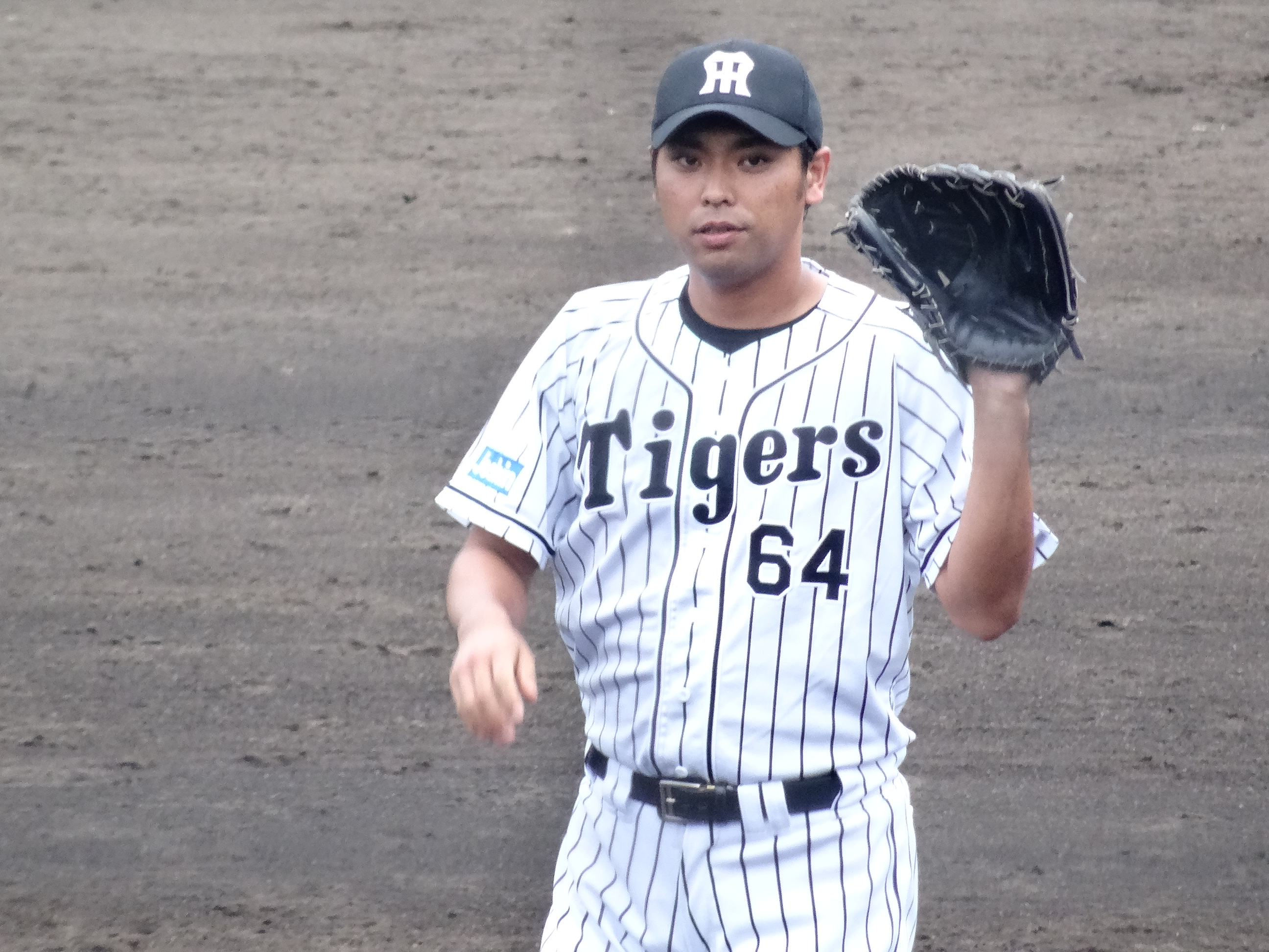 Kentaro Kuwahara, pitcher of the Hanshin Tigers, at Hanshin Naruohama Baseball Ground.